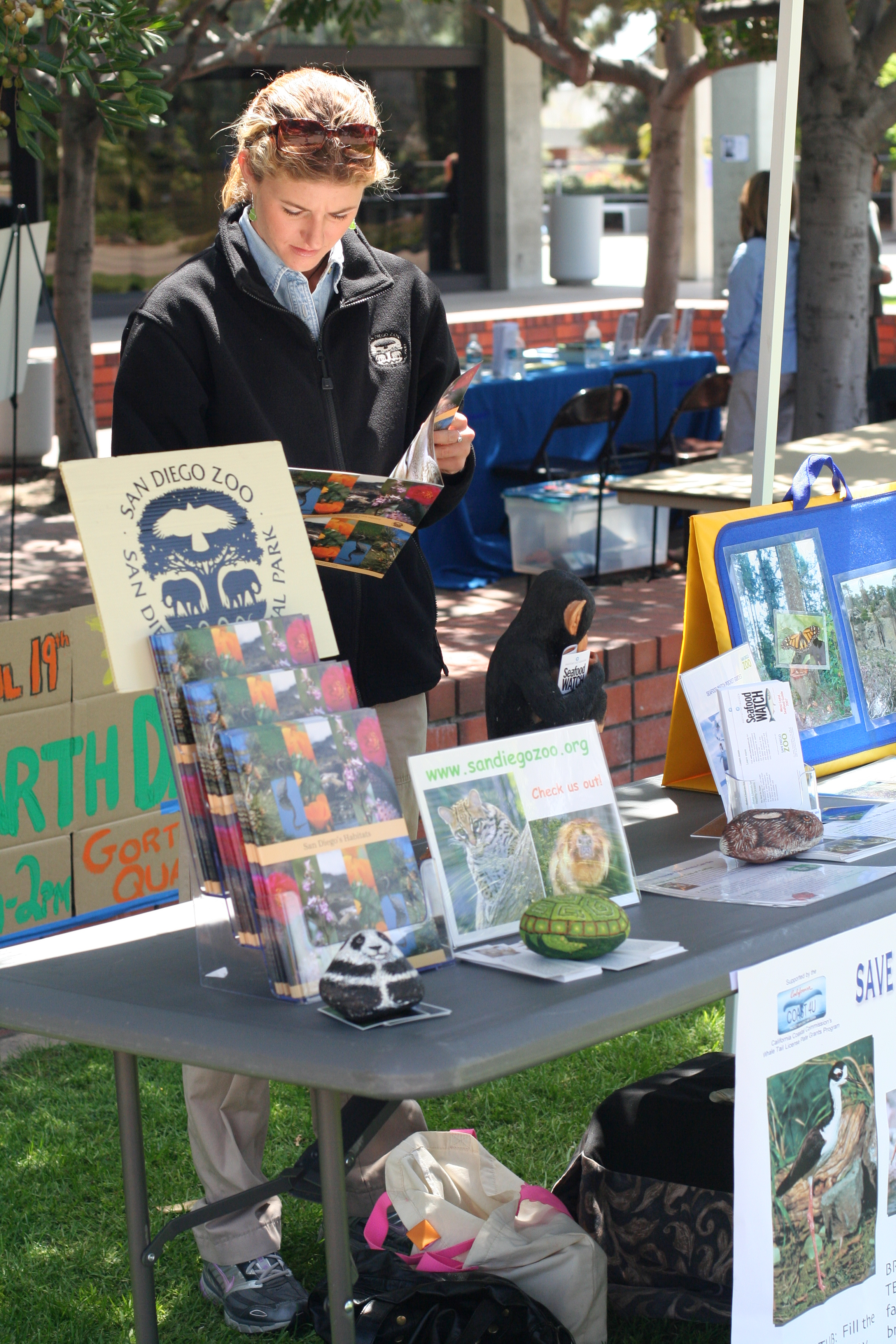 Earth Day 2007 at San Diego City College - exhibit booth from the San Diego Zoo.